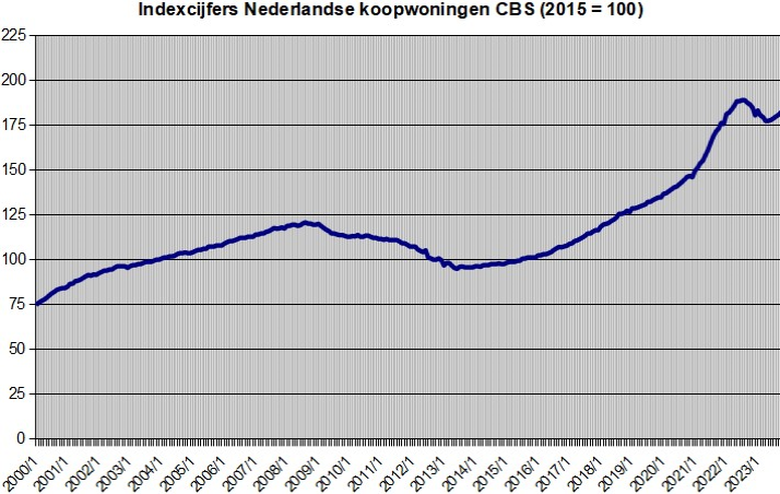 Dutch house prices, Januari 2000 - April 2020, source: CBS (Dutch Central Statistics Bureau)